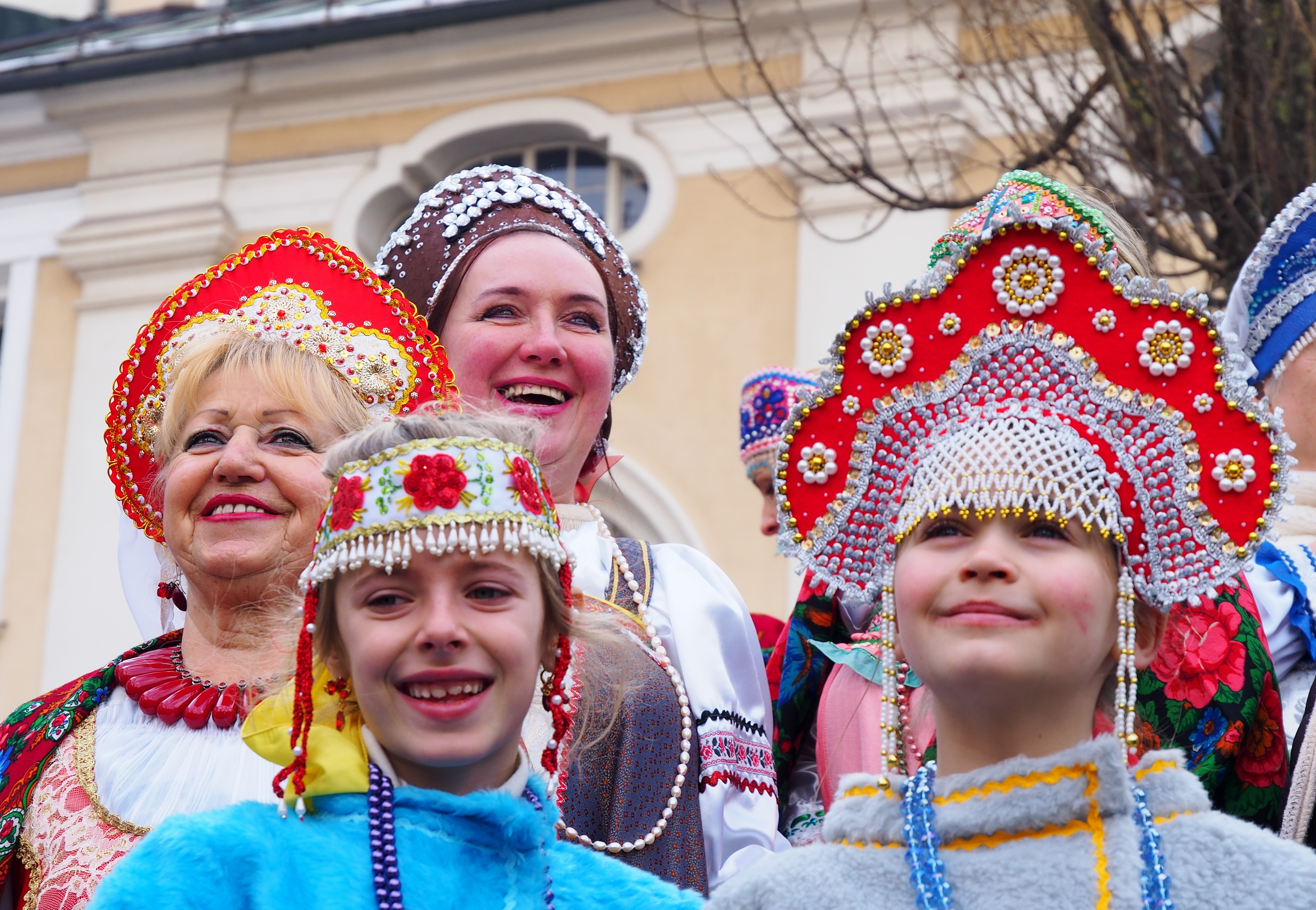 Russian folklor for Maslenitsa 2015. Ljubljana, Slovenia